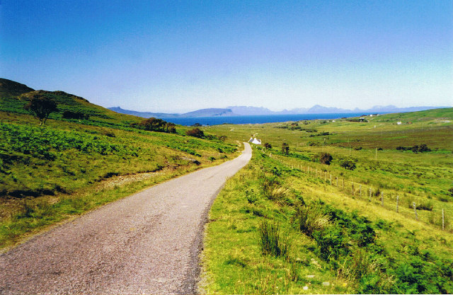 Minor road to Branault. This road also leads to Fascadale, Kilmory and Ockle